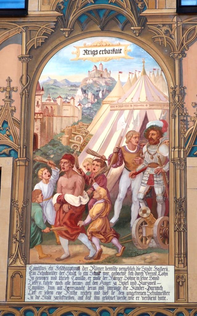 Discription of the Falerii story on the city hall in Ulm, Germany